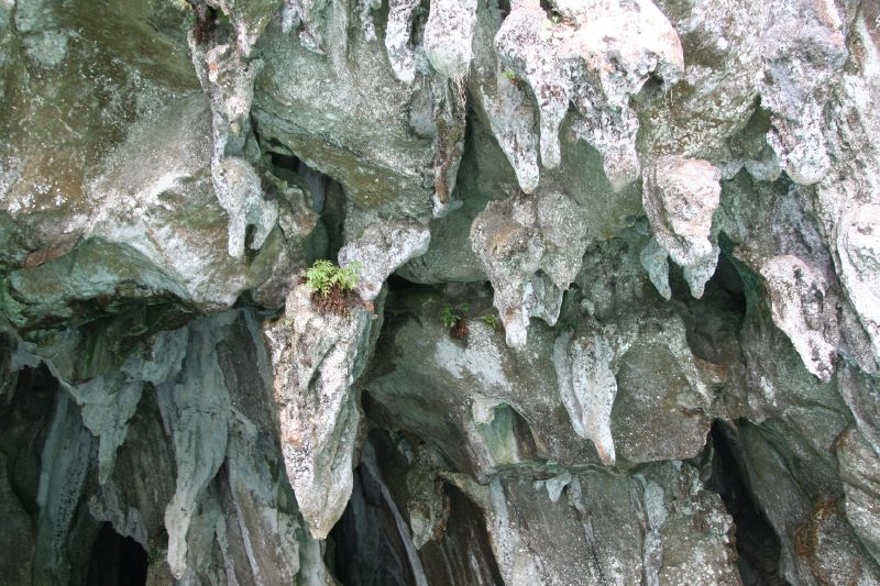 Upclose outside of the underground river/cave